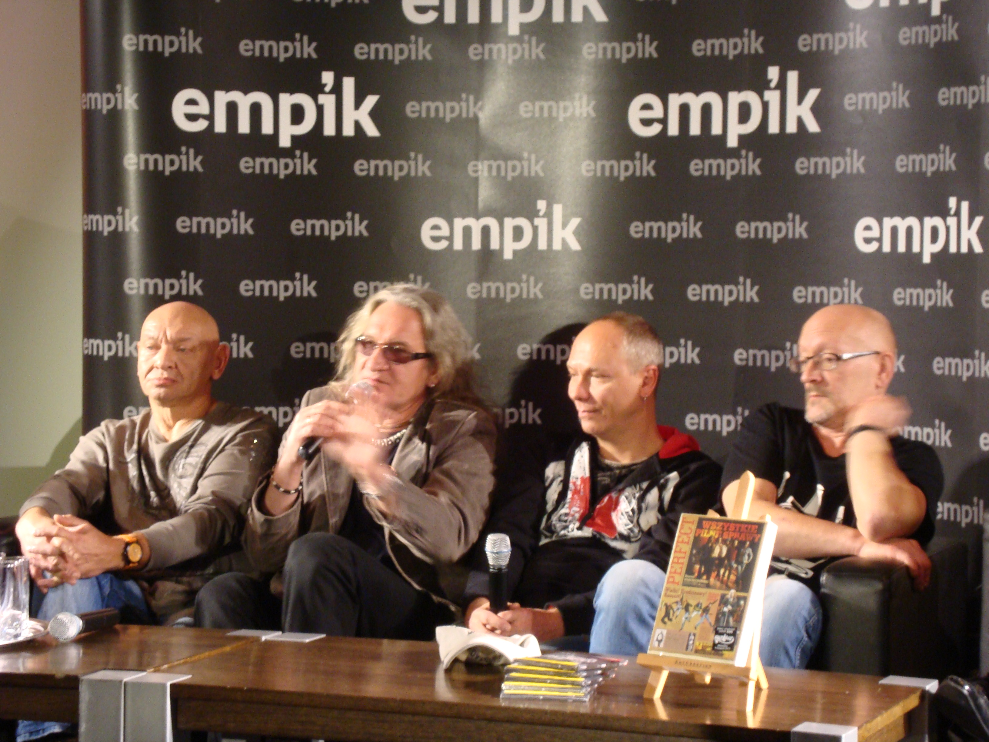 Perfect during a meeting with their fans at Empik Junior (Warsaw) on 19th November 2010.